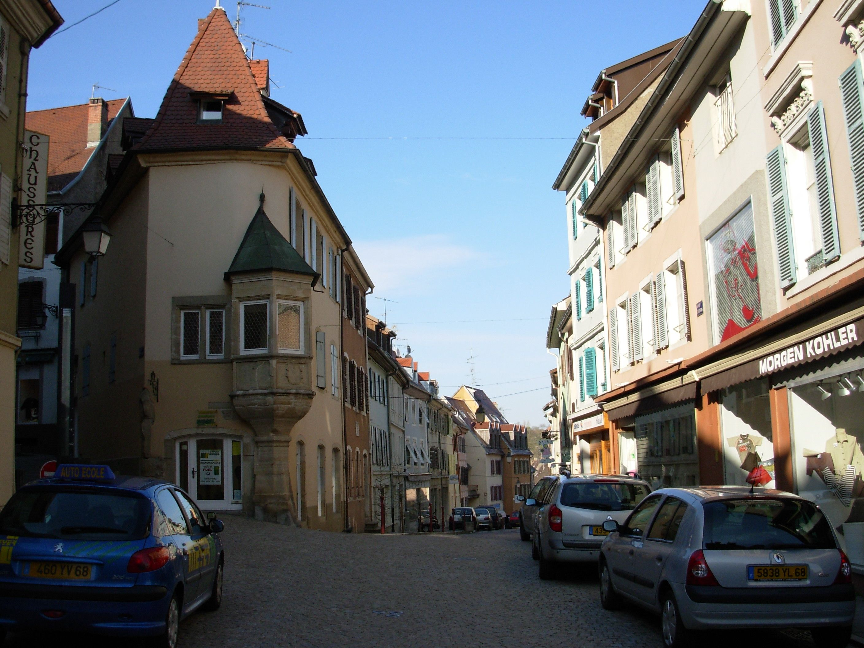 Typical view of the center of Altirch city, France (Alsace)